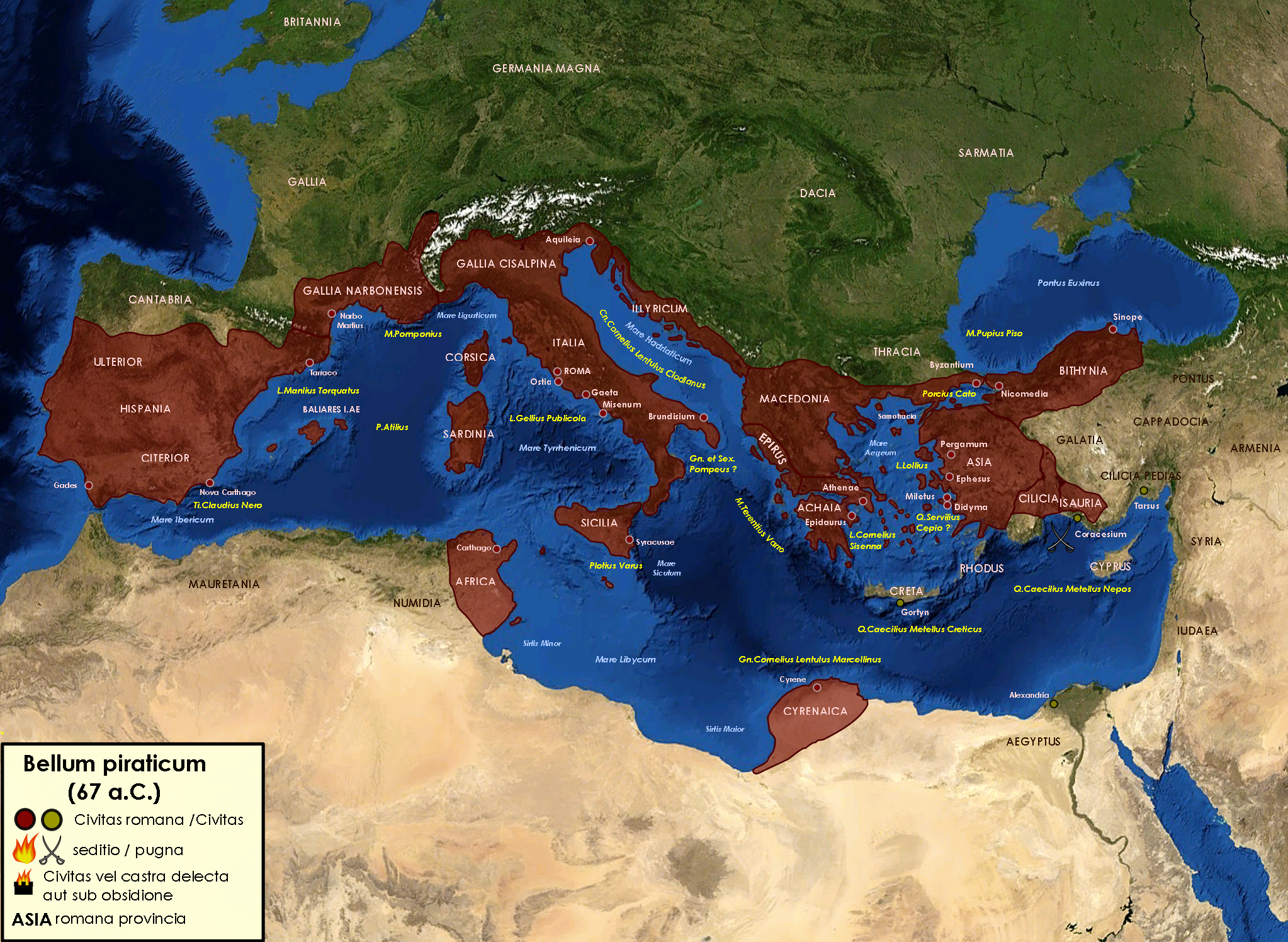 Bellum piraticum 67 BC, Mediterranean Sea.